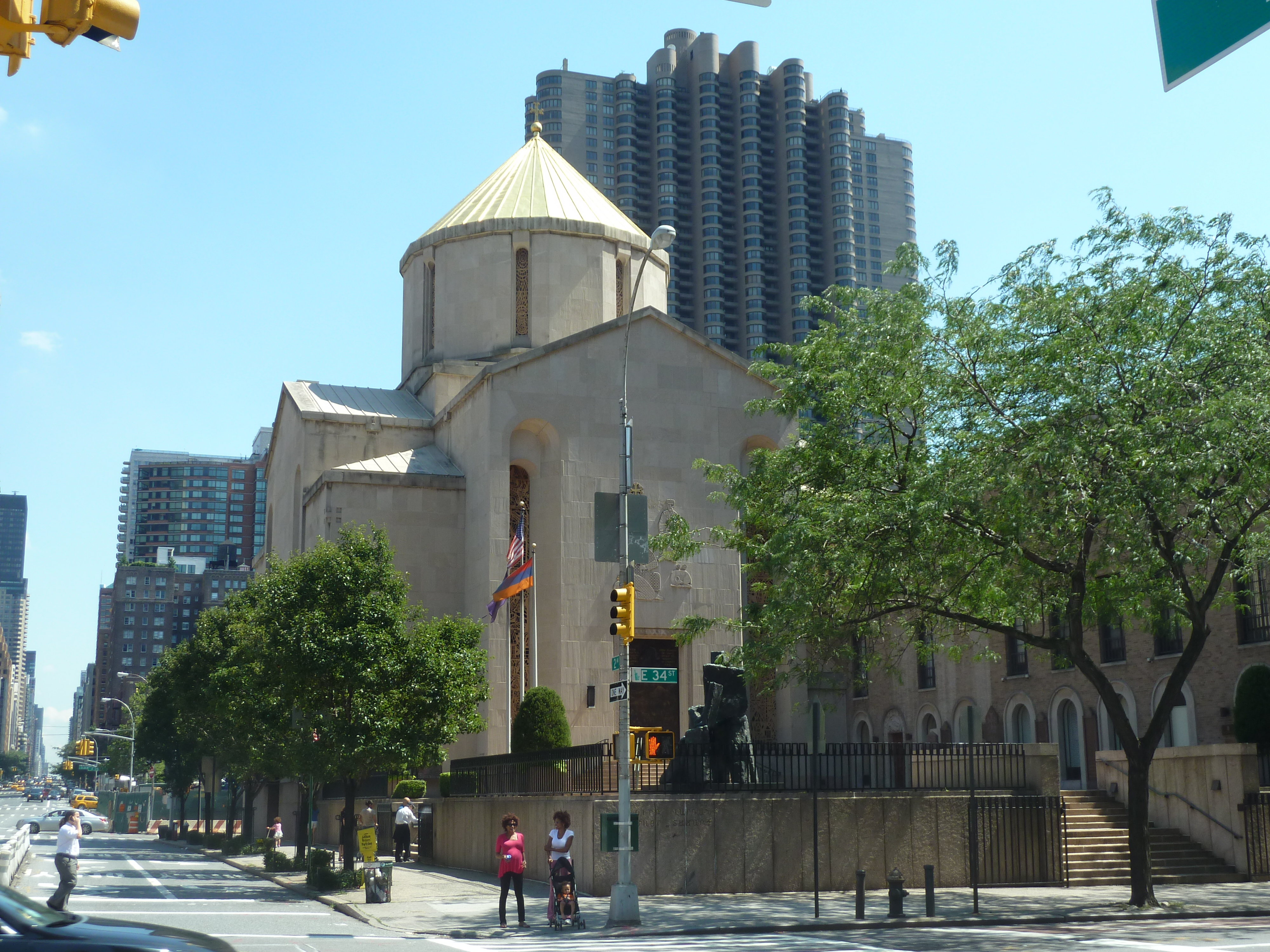 St. Vartan Armenian Apostolic Cathedral in New York City.